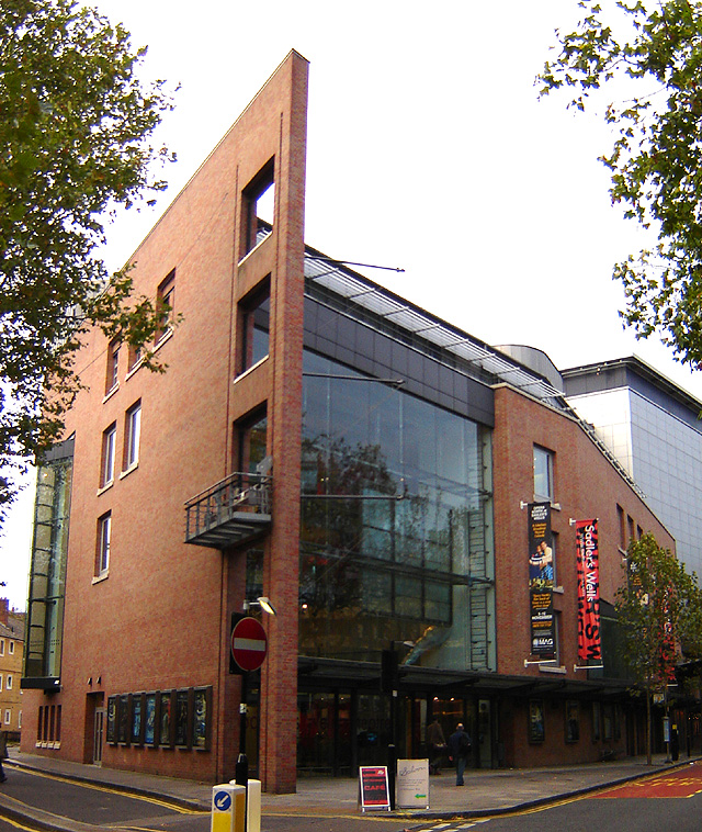 Sadler's Wells Theatre, Rosebery Avenue, Finsbury, Islington, London. 5 November 2005. Photographer: Fin Fahey.